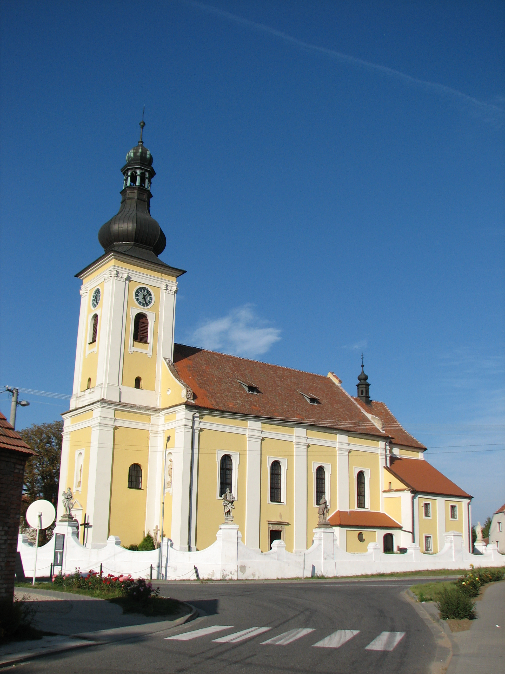 All Saints church in Milotice, Hodonín District, Czech Republic